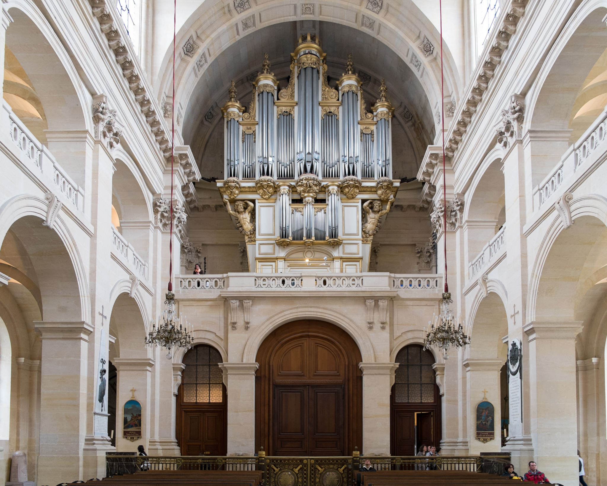 The organ within the chapel of Saint-Louis-Des-Invalides from 1687.